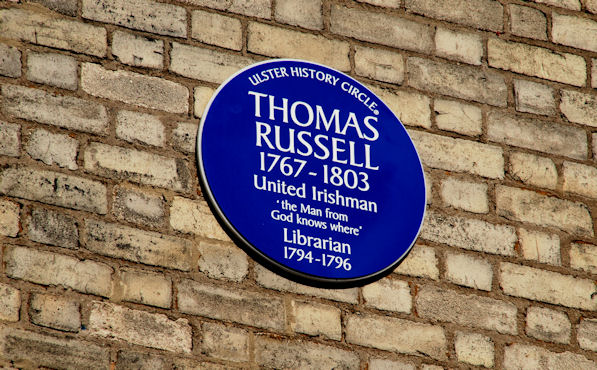 Thomas Russell plaque, Belfast. A plaque, on the Linenhall Library 495549 in Donegall Square North, commemorating Thomas Russell